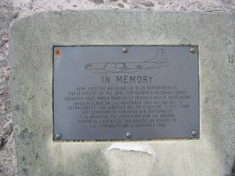 View of the memorial plaque. Taken by Geotek 2003